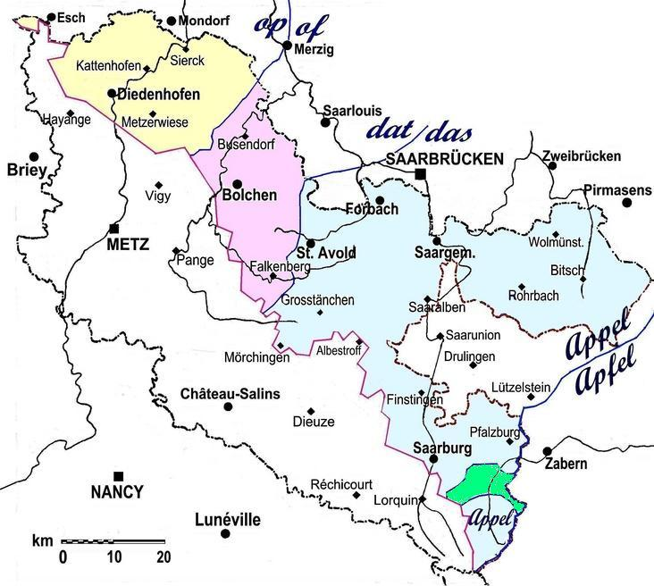 Card of German dialects spoken in French department Moselle